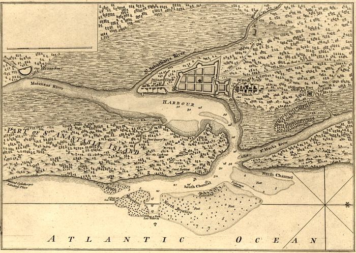 Map of St. Augustine, Florida, and its harbor, drawn by Thomas Jefferys, circa 1762. Insert between pp. 24-25 from "An Account of the First Discovery and Natural History of Florida", 1763, by William Roberts. Shows roads, water depths by soundings, locations, physical features and inland waters. The scale for the map is 1:47,000.